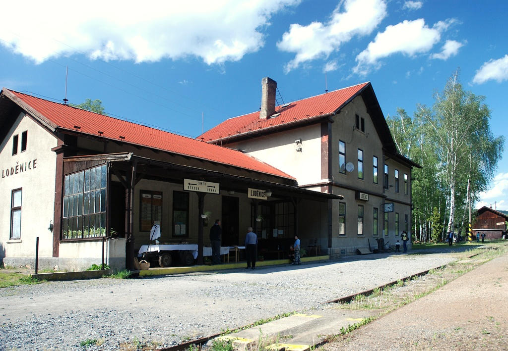 Railway station Loděnice, where Jiří Menzel shot in 1966 his film Closely Watched Trains